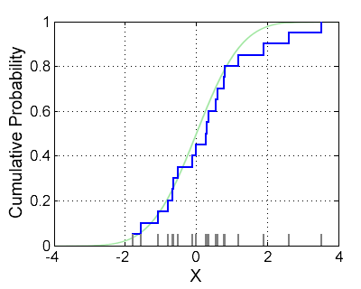 This is a visualization of an empirical distribution function. The grey bars show the samples corresponding to the ECDF and the green line is the theoretical distribution from which the samples have been drawn.